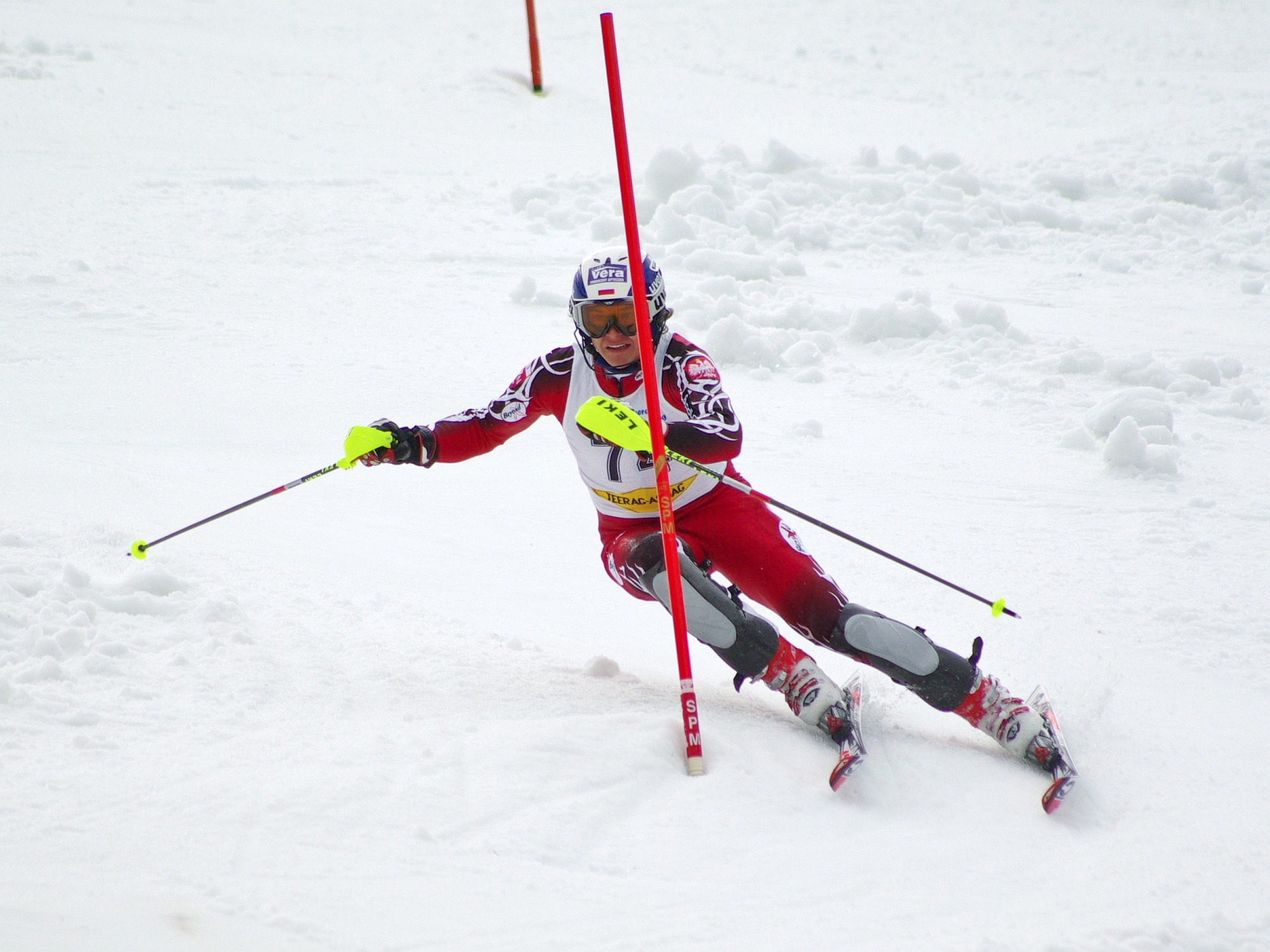 Polish alpine skier Maciej Bydliński during the Slalom run of the FIS Super Combined in Spital am Semmering on 11 March 2008.